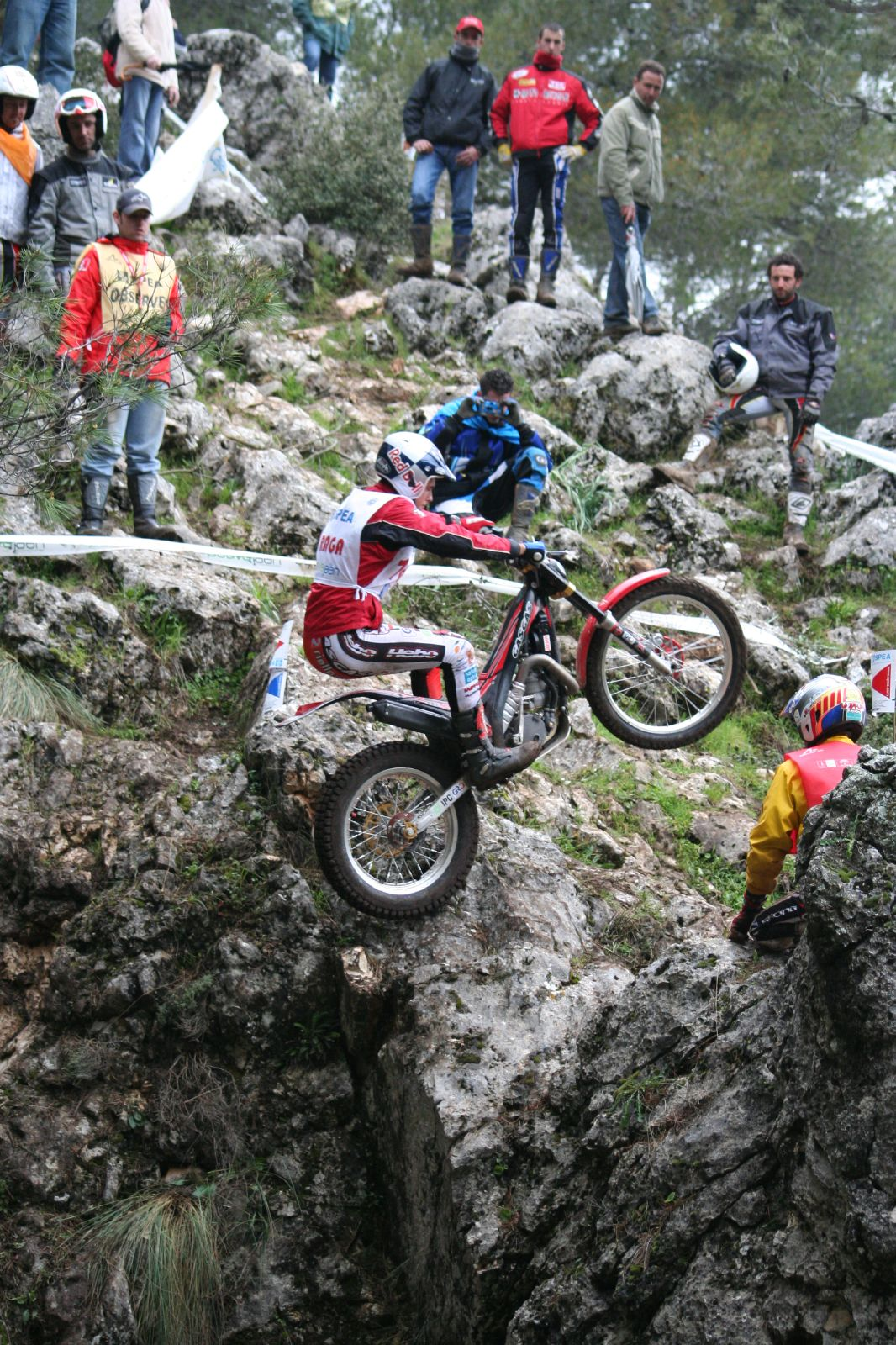 Raga arriba Adam Raga @ FIM Trial World Championship 2007 R1